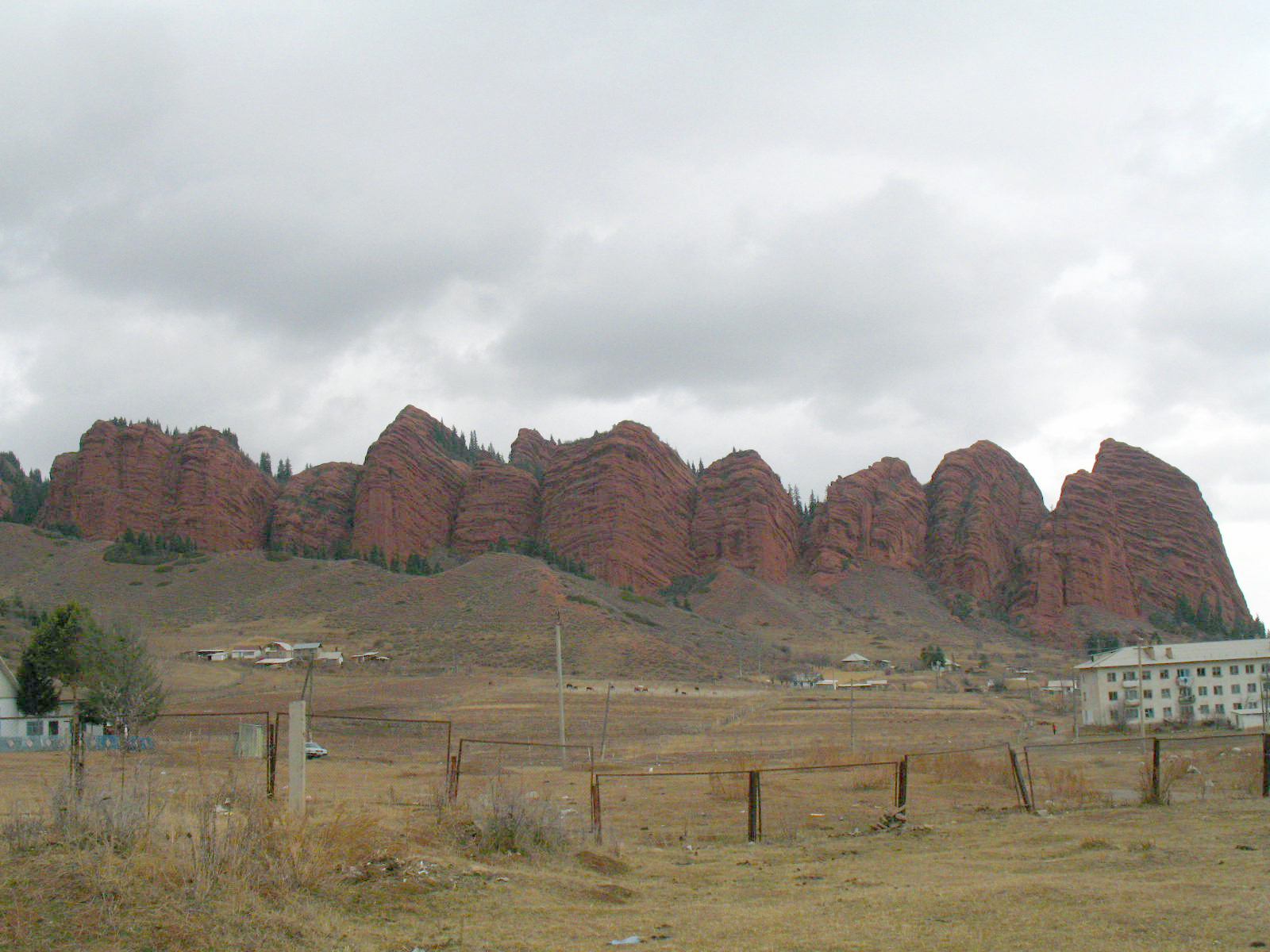 A view of Jeti Ögüz rock formation, encompassing the grounds and one building of the associated health resort